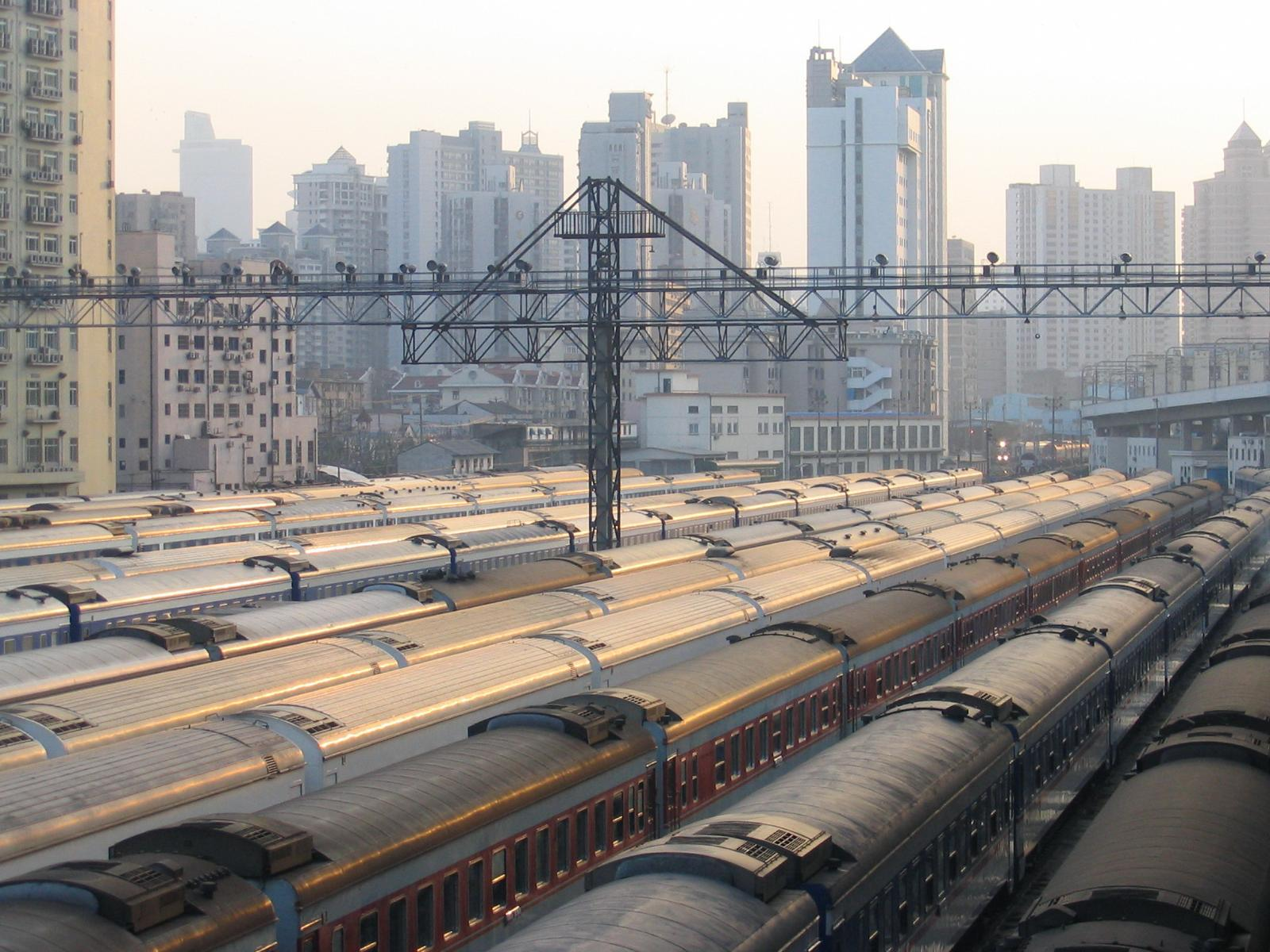 上海老北站 Shanghai North Railway Station